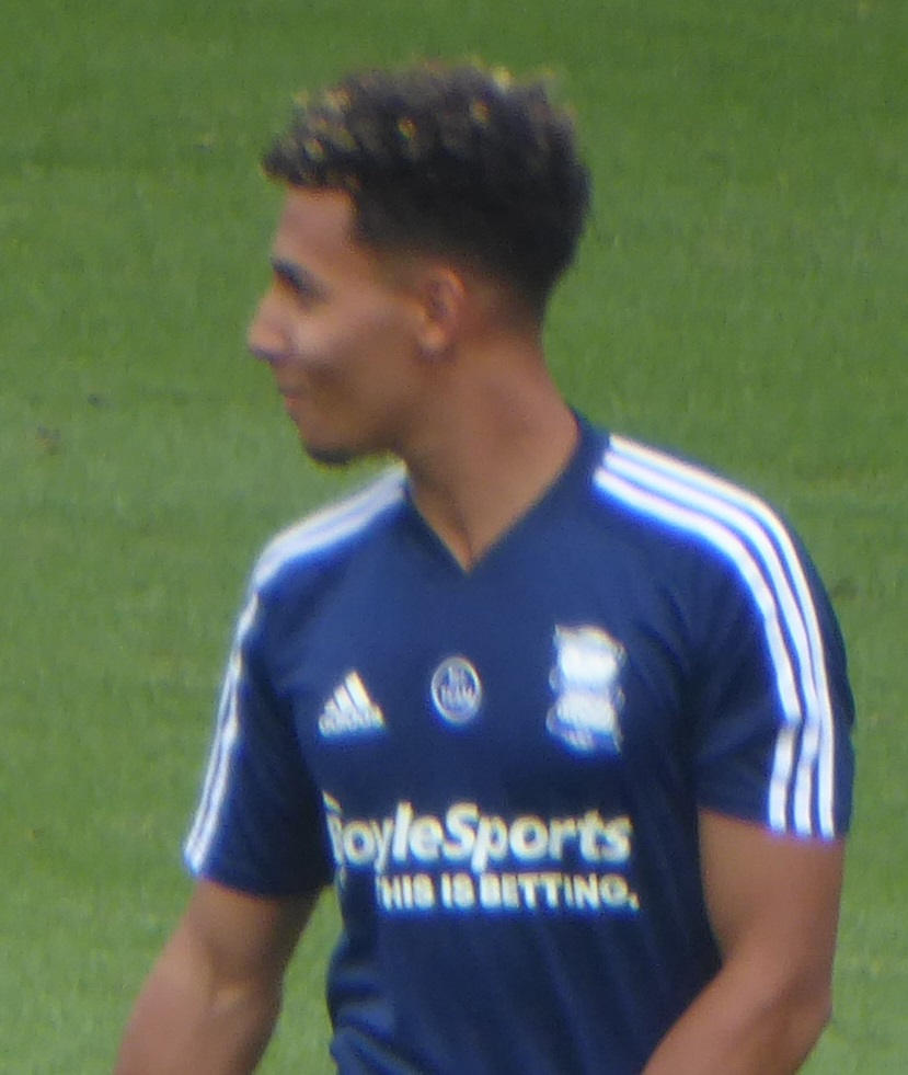 Odin Bailey warms up before Birmingham City's EFL Championship match against Brentford at Griffin Park on 3 August 2019